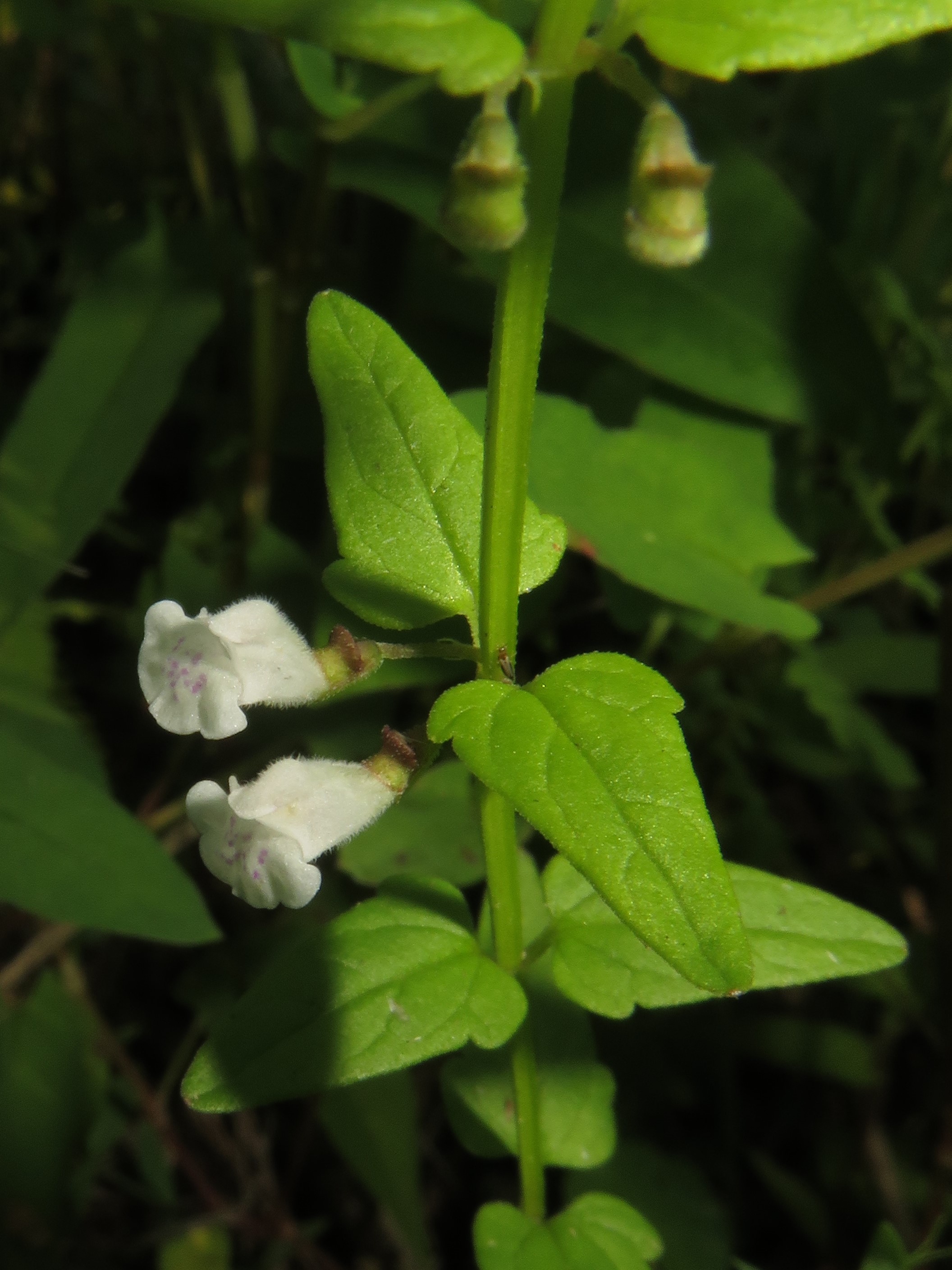 Scutellaria dependens, Aizu area, Fukushima pref., Japan